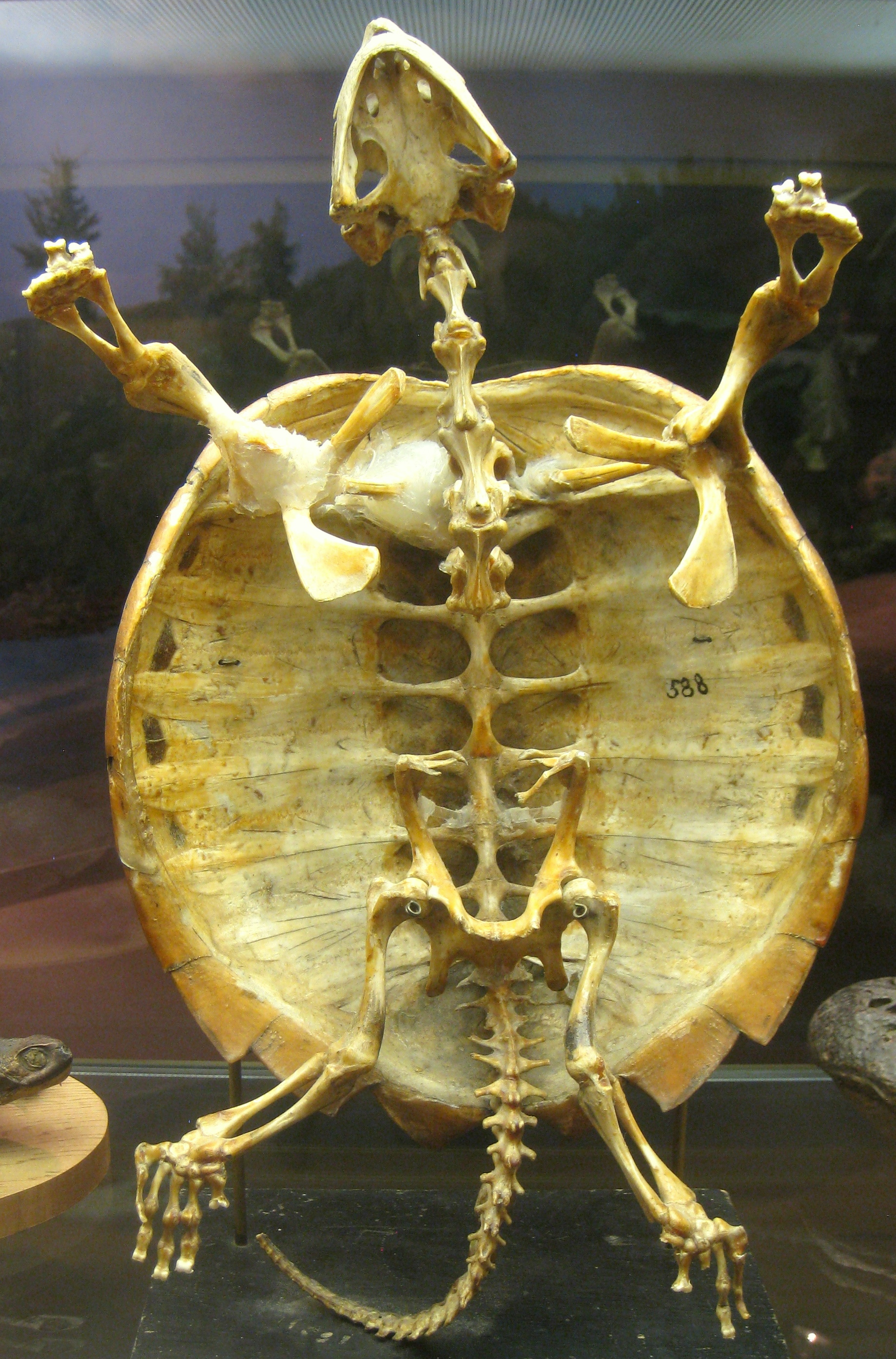 Snapping turtle (Chelydra serpentina) in Museum of Science, Boston, Massachusetts, USA. Note that there was no prohibition against photography in the museum.